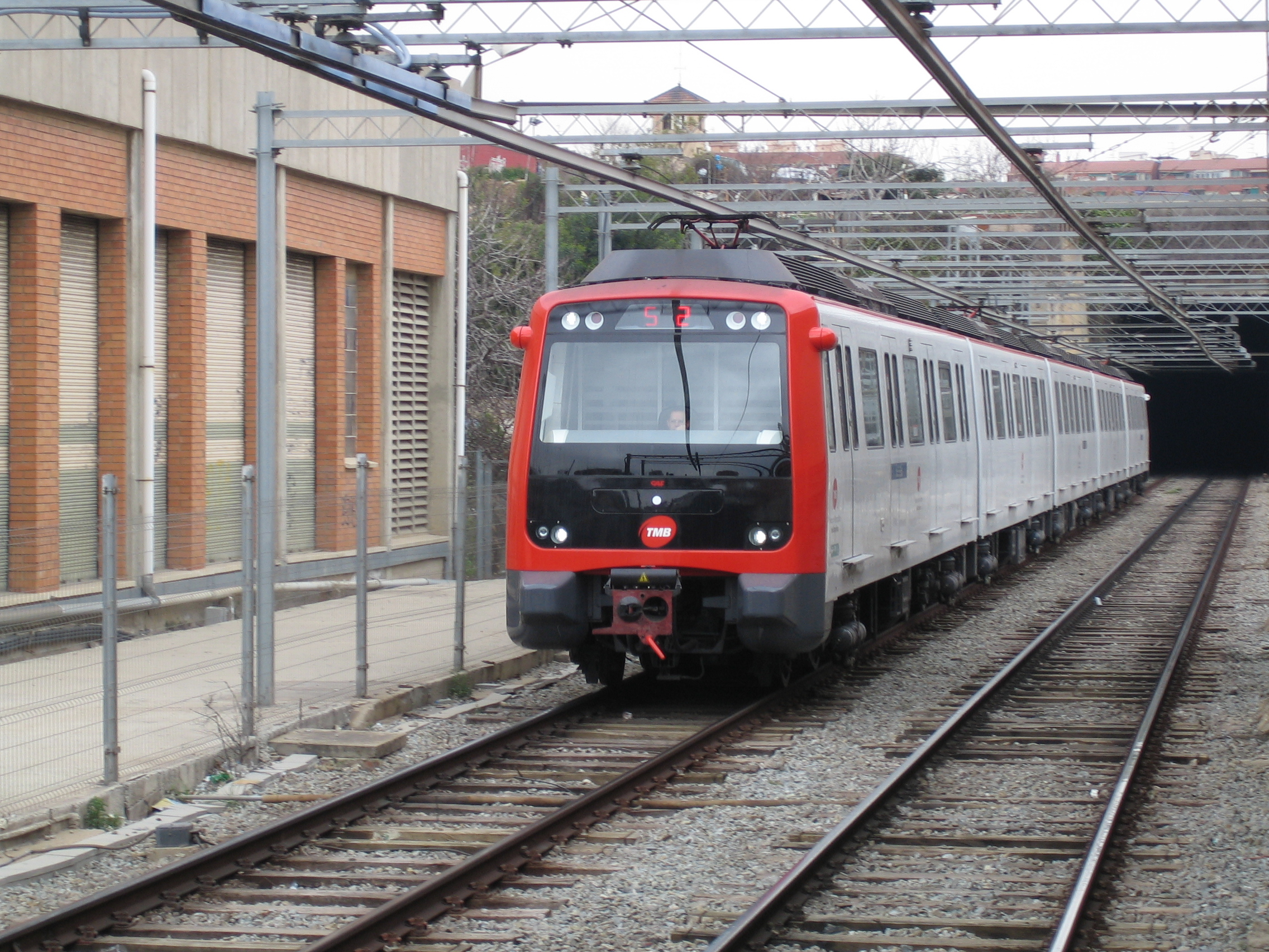 Train type 5000 of Barcelona's metro at Can Boixeres station